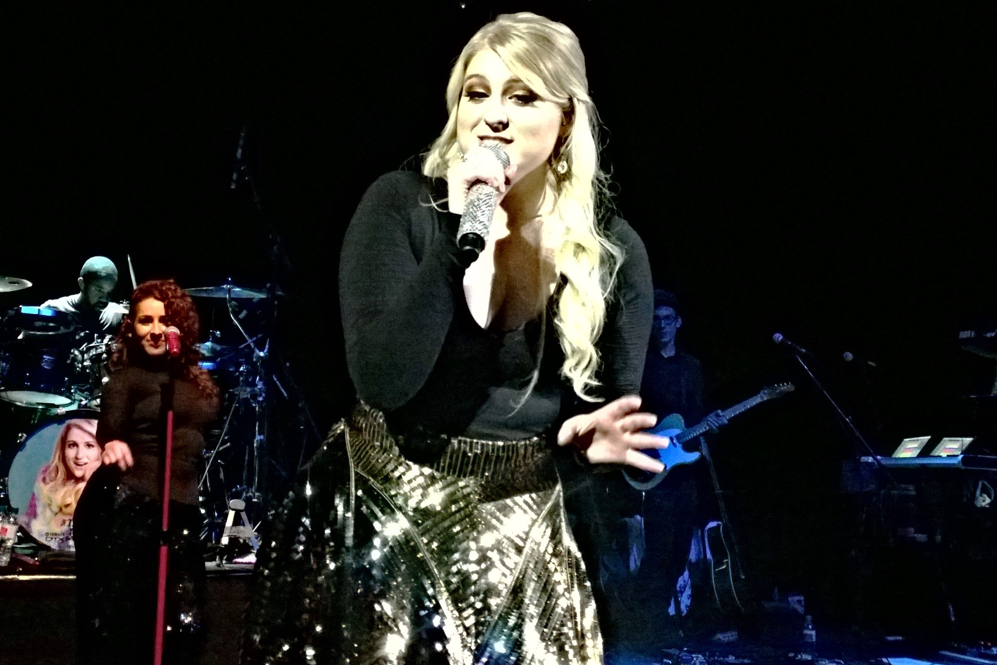 Meghan Trainor in April 2015, on Shepherds Bush Empire.